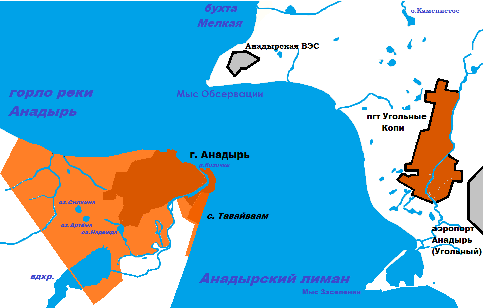 Map of Anadyr (Russia)